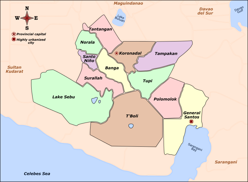 Labelled colored map of the province of South Cotabato, showing its cities and municipalities.